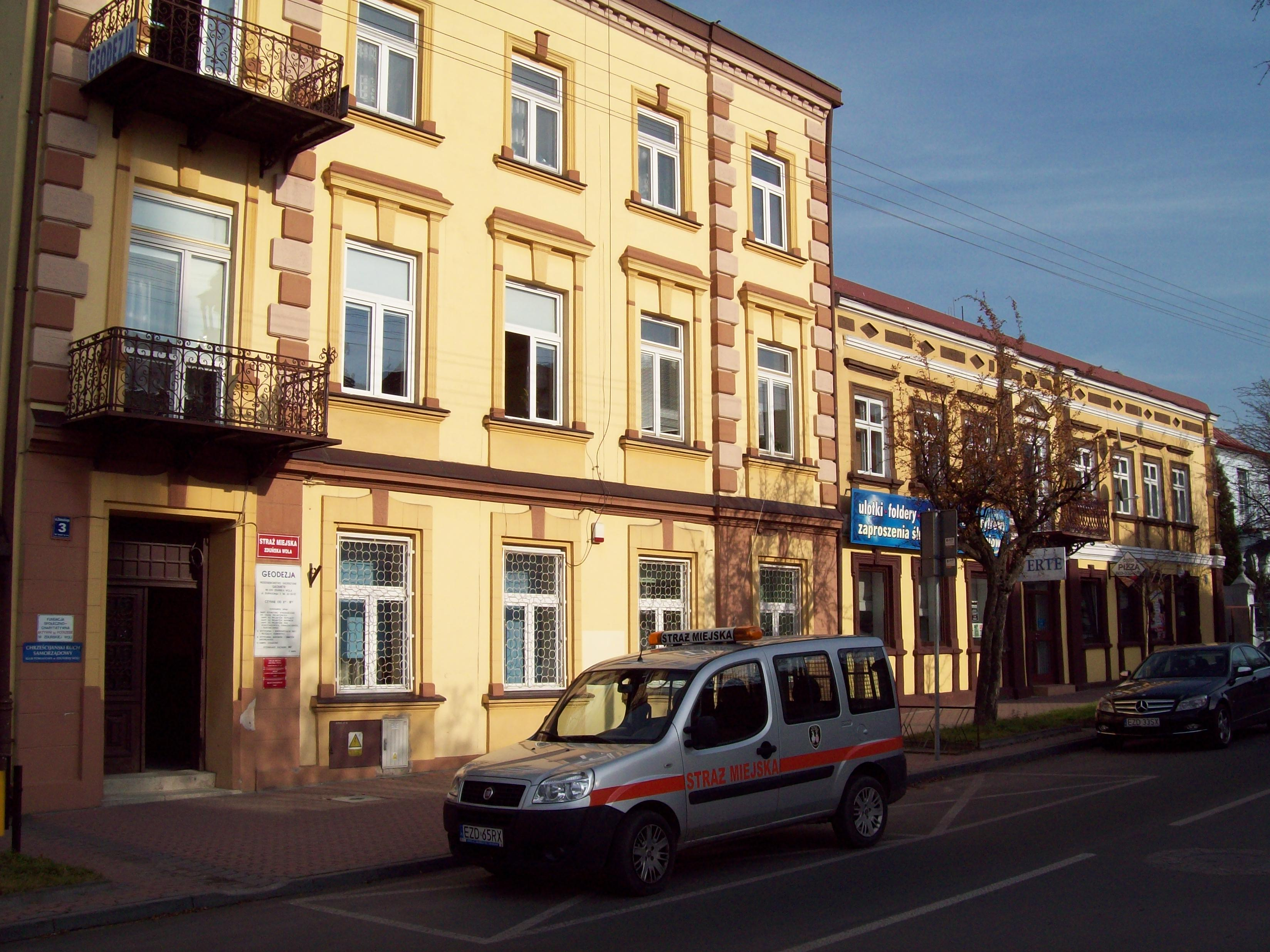 Municipial police's quarters in Zdunska Wola